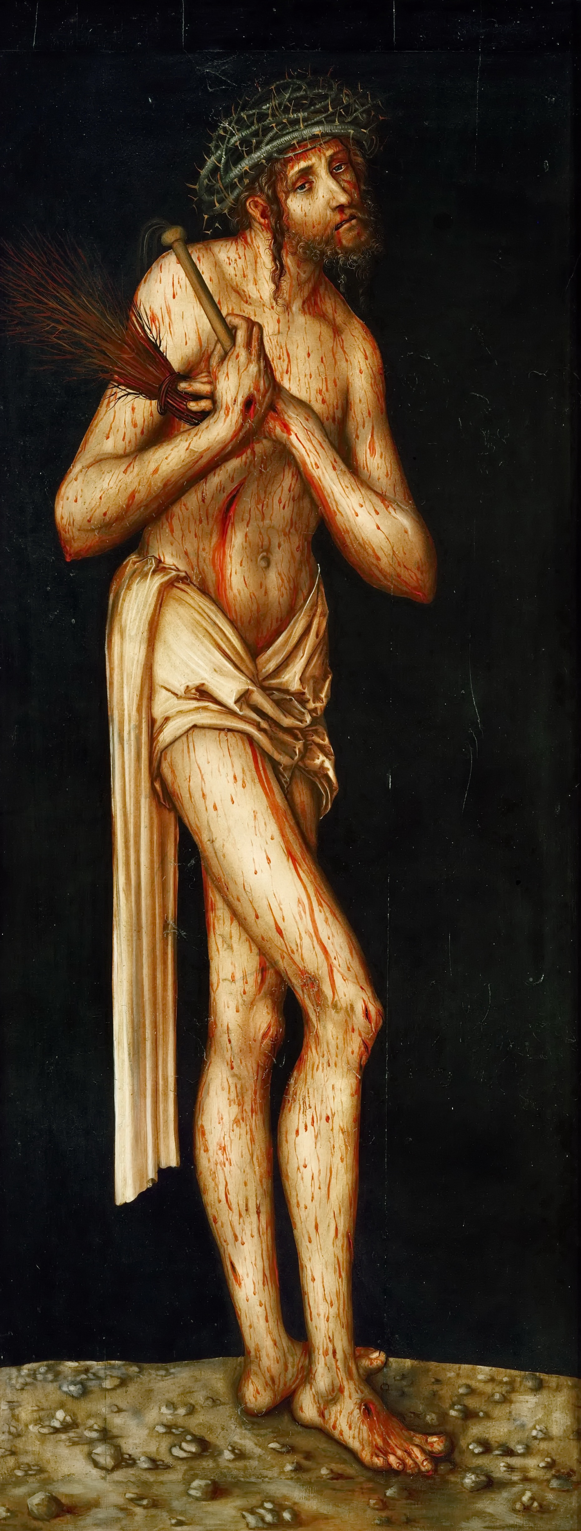 Inner Wing of an Altar